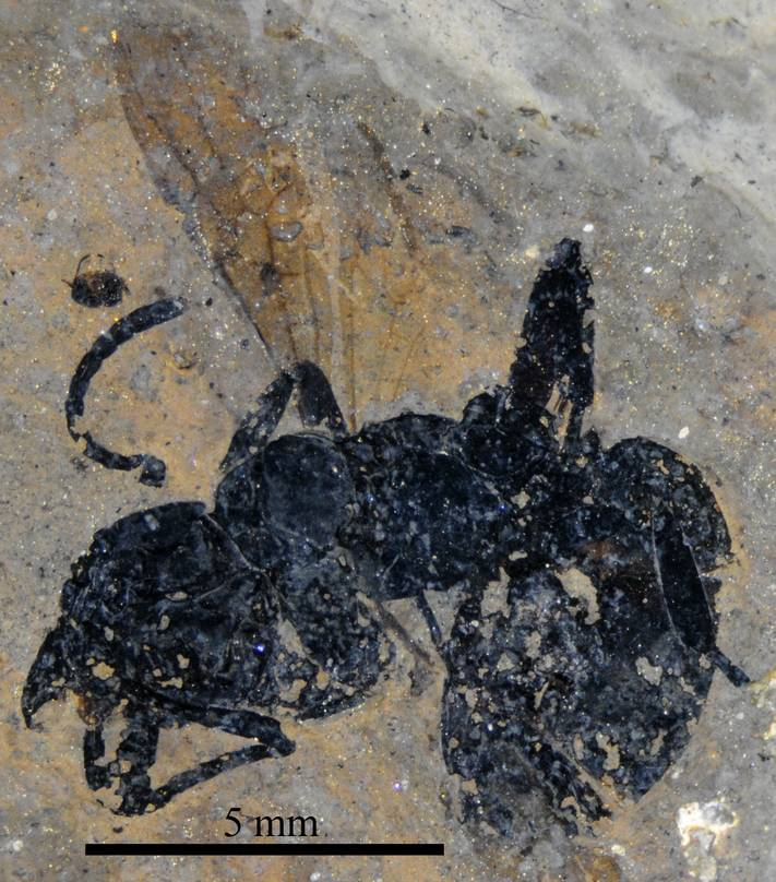 Pachycondyla lutzi holotype gyne fossil. Lateral view. Specimen SMFMEI11958